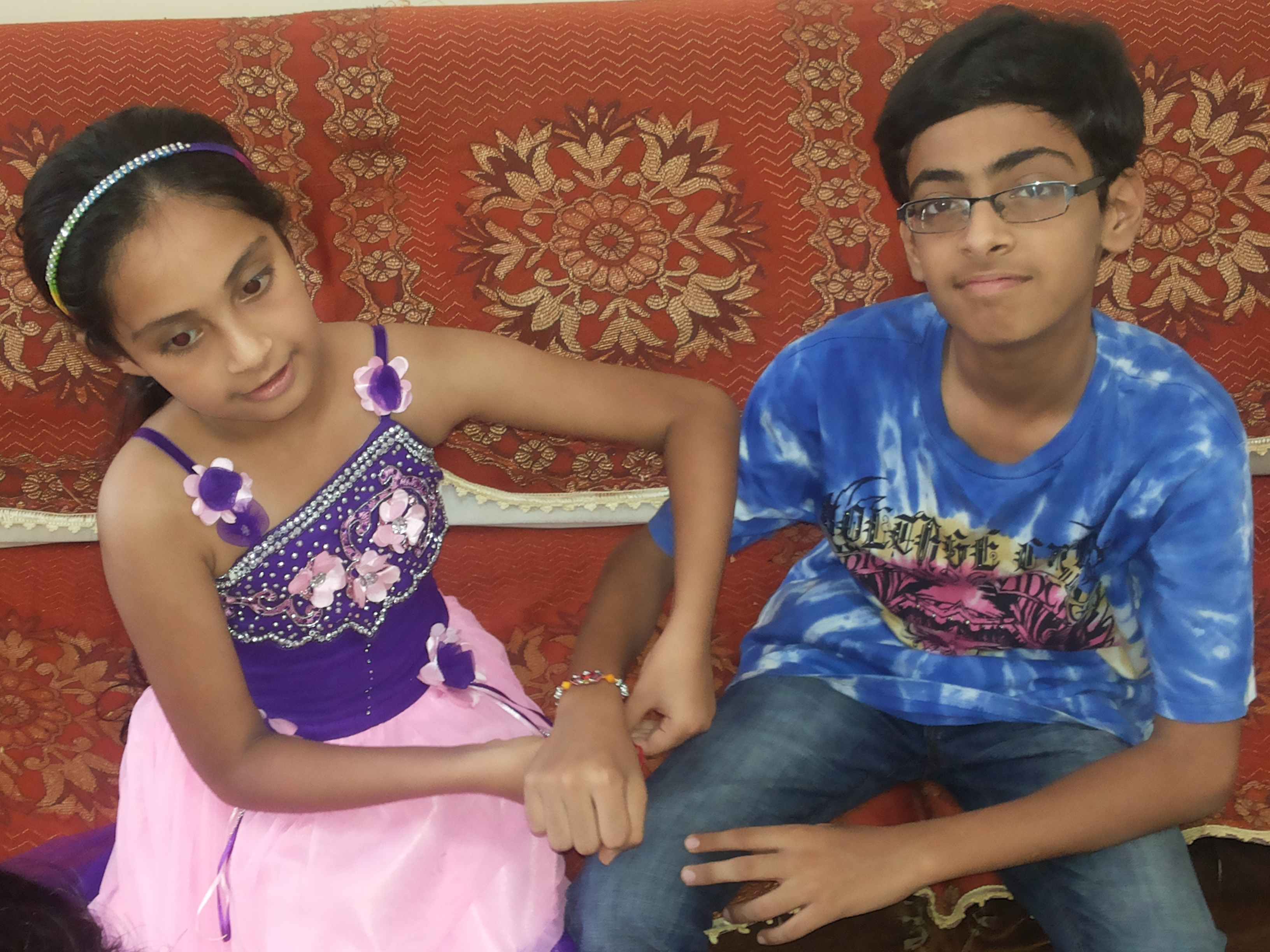 Ritual of Tie Rakhi On the ocassion on raksha bandhan